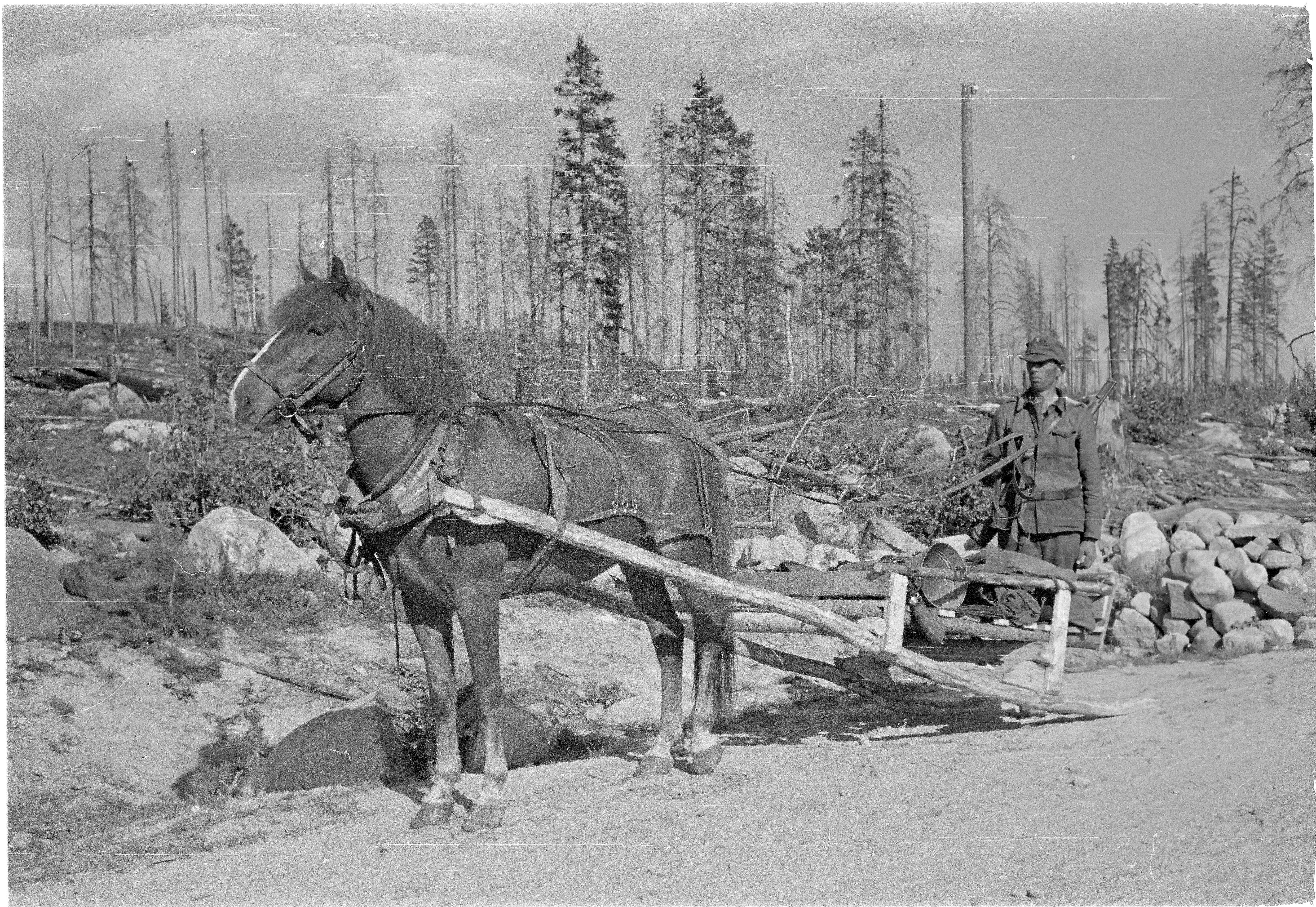 Finnish version of travois in use at Rukajärvi (Ру́гозеро, Rugozero) in August 1941 during Continuation War.